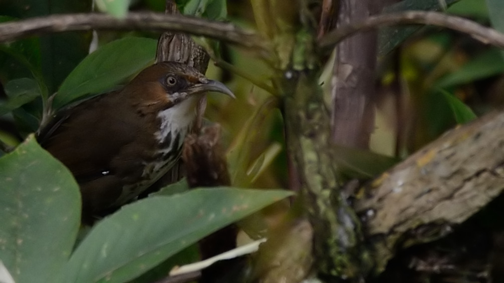 Spot breasted Scimitar Babbler (Pomatorhinus mcclellandi) from Khonoma, Nagaland, India.